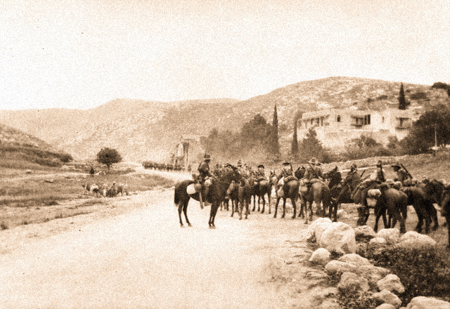 Australian lighthorsemen from the 4th Light Horse Regiment entering the Judean Hills along the main road, 1918.